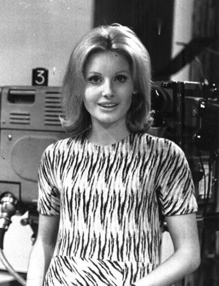 The Italian TV presenter Gabriella Farinon in RAI Studios in 1967